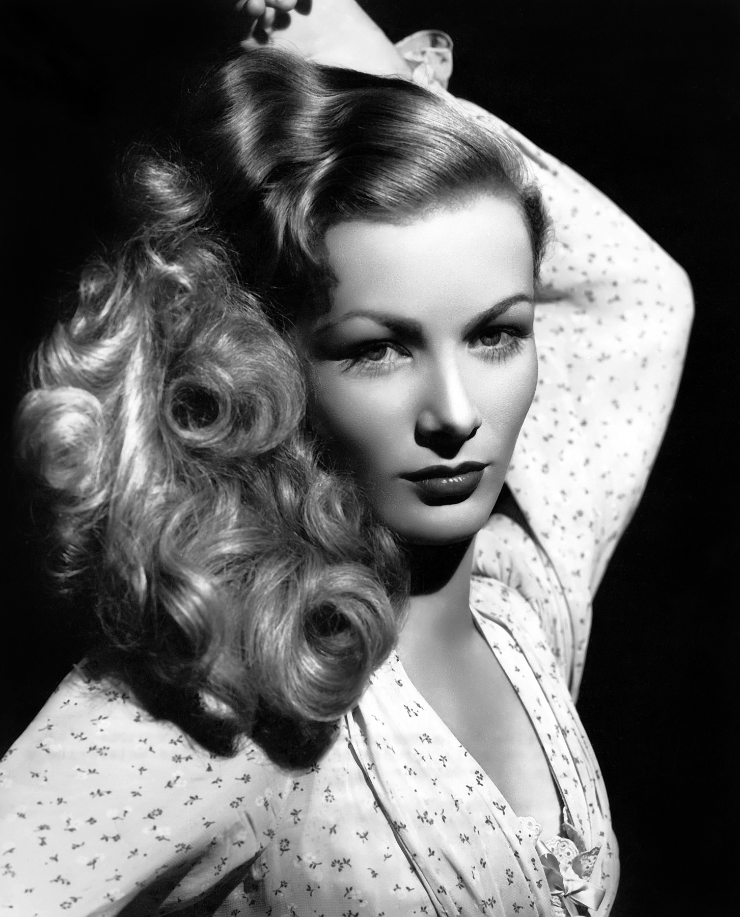 Studio portrait photo of Veronica Lake taken for promotional use.